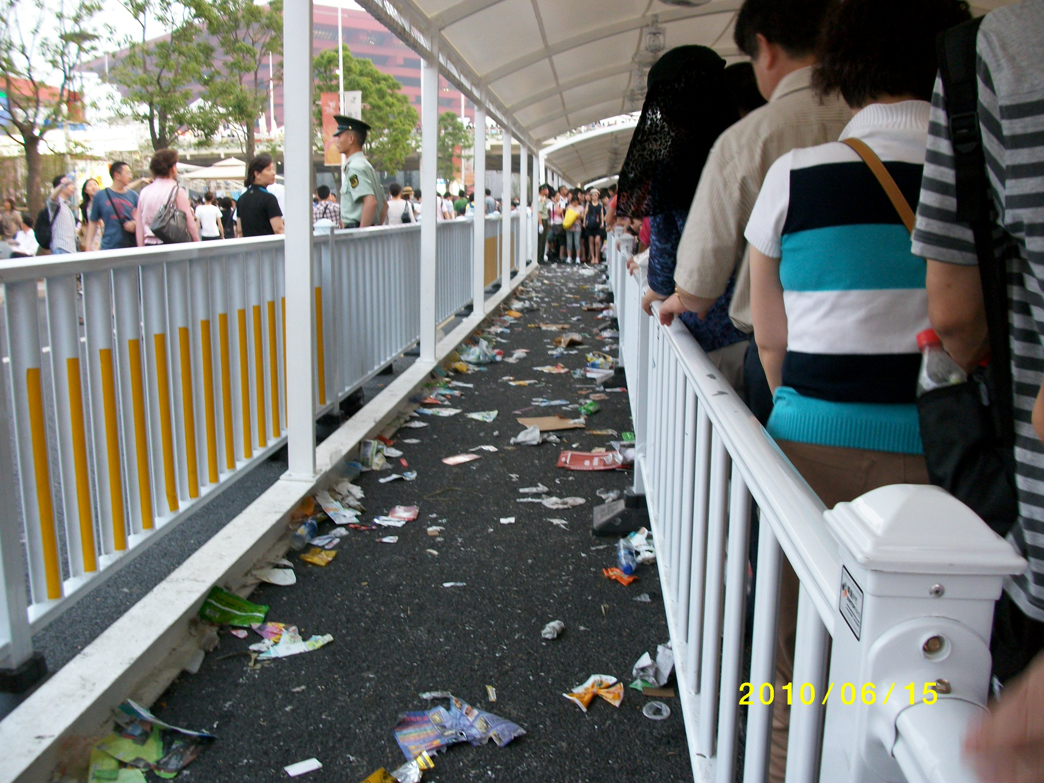 Litter in 2010 Shanghai EXPO.